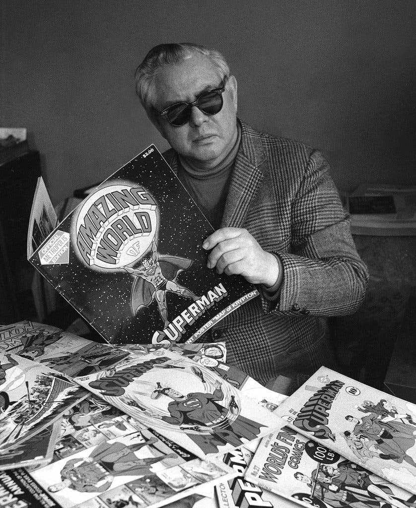 Superman co-creator, Joe Shuster, in a press photo by DC Comics.